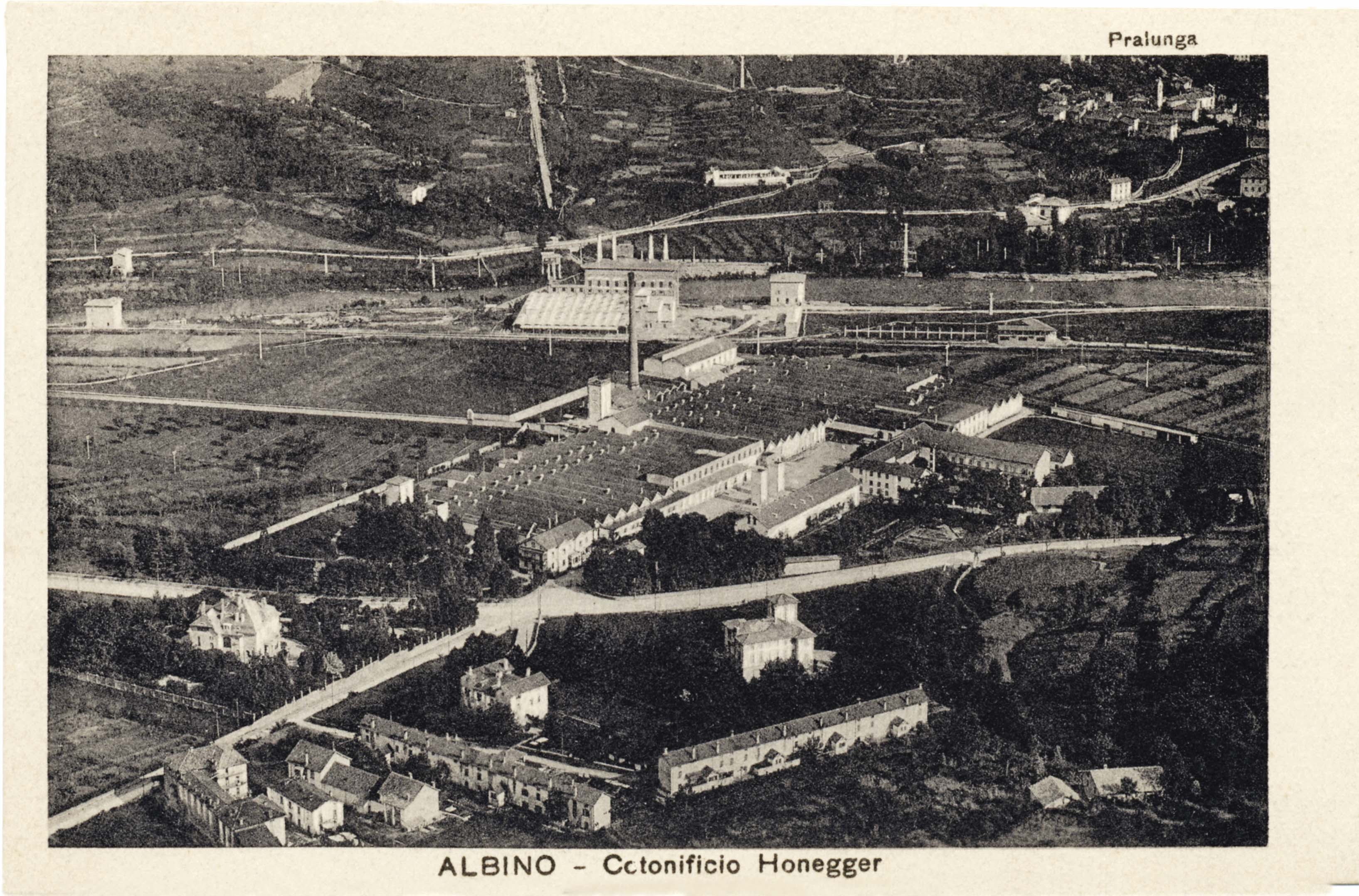 Aerial